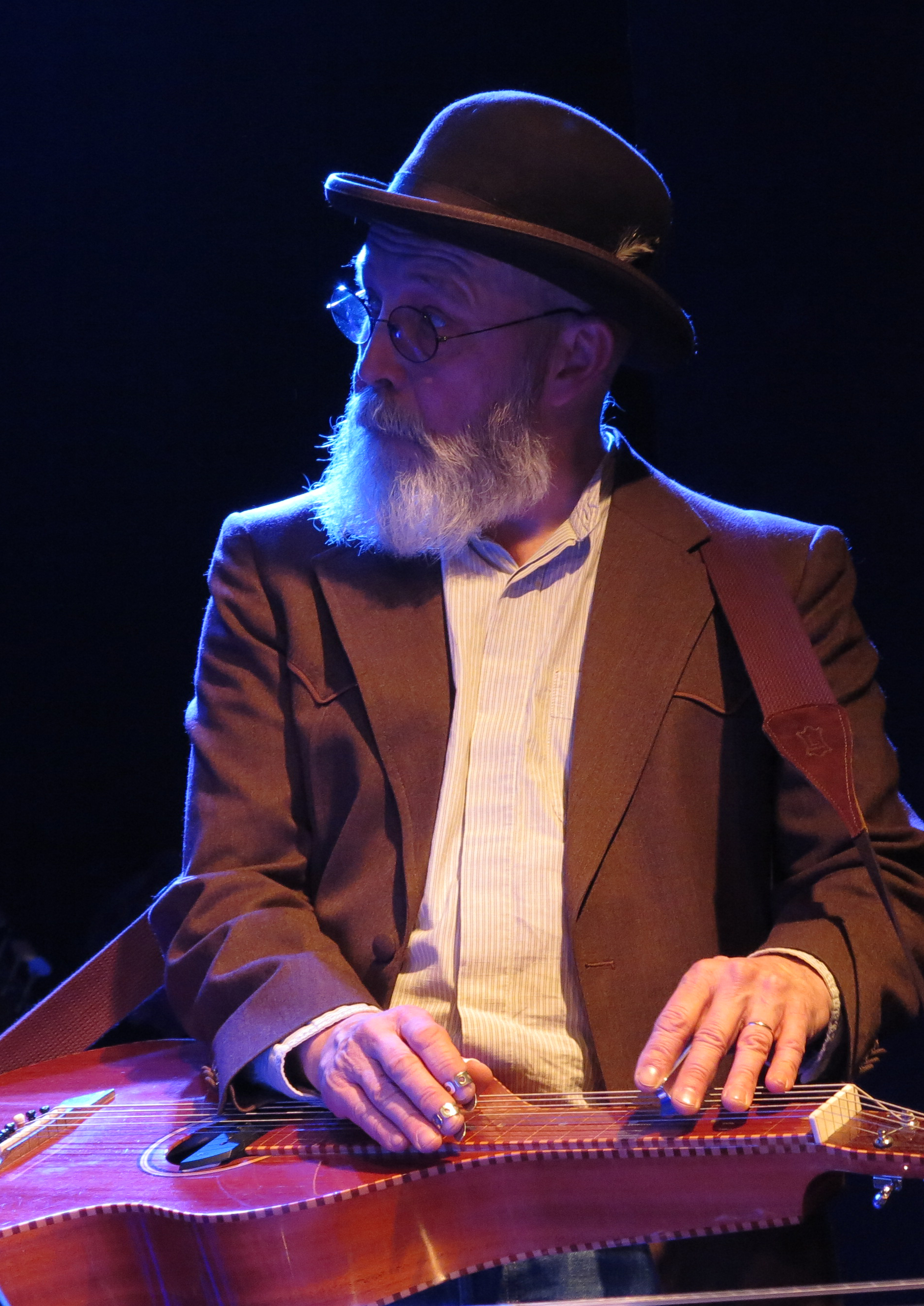 Finnish musician Olli Haavisto in his and his brother’s birthday concert (Fifty-Sixty ConcertI at the Tavastia Club, Nov 2014.